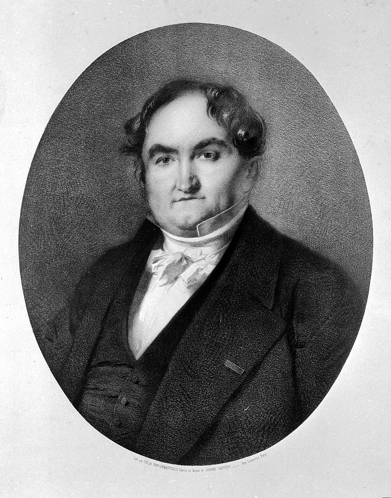 Jean Pierre Falret (1794-1870), Psychiatrist at the Salpetriere, Paris. Iconographic Collections Keywords: Jean Pierre Falret; Paul Ferdinand Gachet; F. Dufourmantelle; Gautier; Lemercier